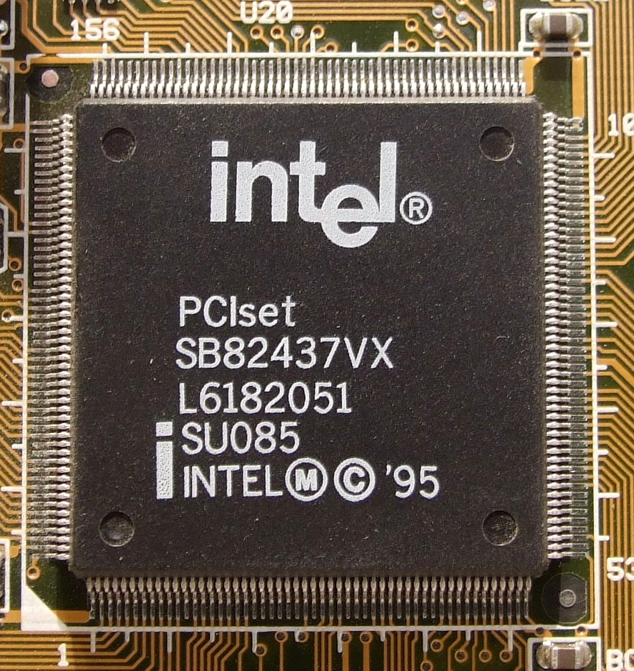 North Bridge Intel VX chipset